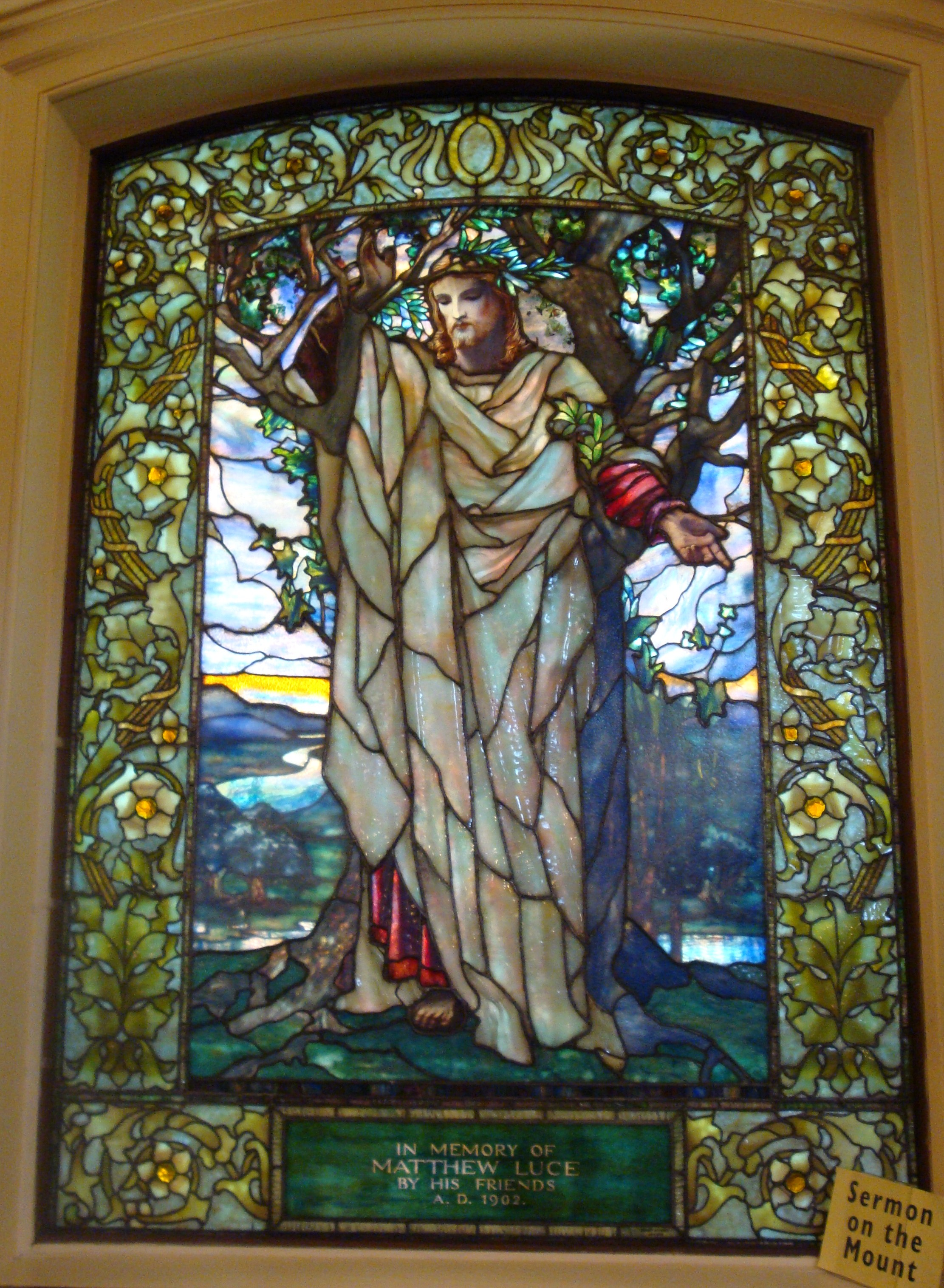 Detail of stained glass window created by Louis Comfort Tiffany in Arlington Street Church (Boston) depicting the Sermon on the Mount. March 2009 photo by John Stephen Dwyer